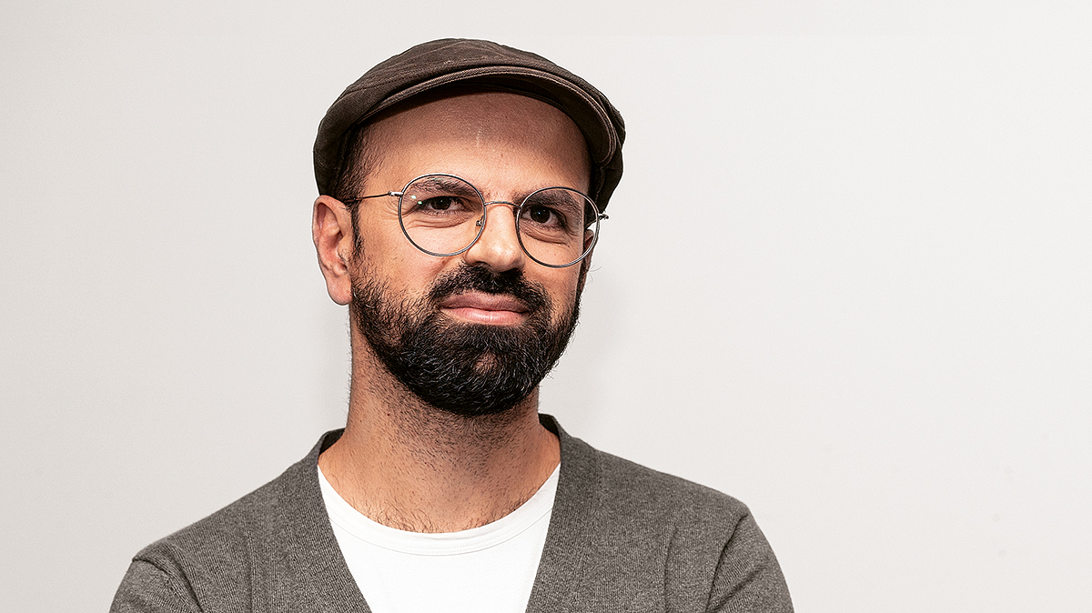 Luca Caracciolo, German-Italian journalist and editor-in-chief of the t3n Magazine